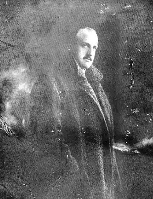 Founder of Fenerbahce Ziya Songulen